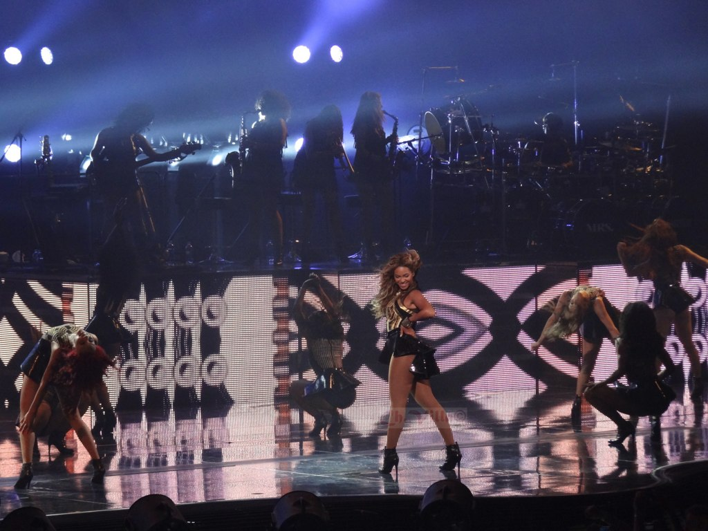 Beyonce performing in Montreal in 2013 during The Mrs. Carter Show World Tour.